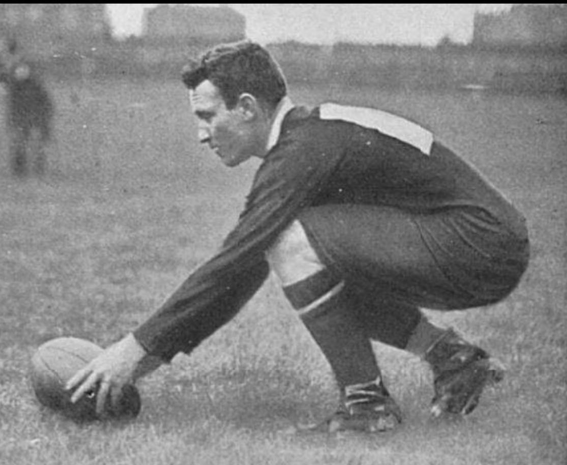 The great Herbert Henry "Dally Messenger prepares to kick at Barley Mow, Bramley, UK, October 1907 - All Blacks (All Golds).